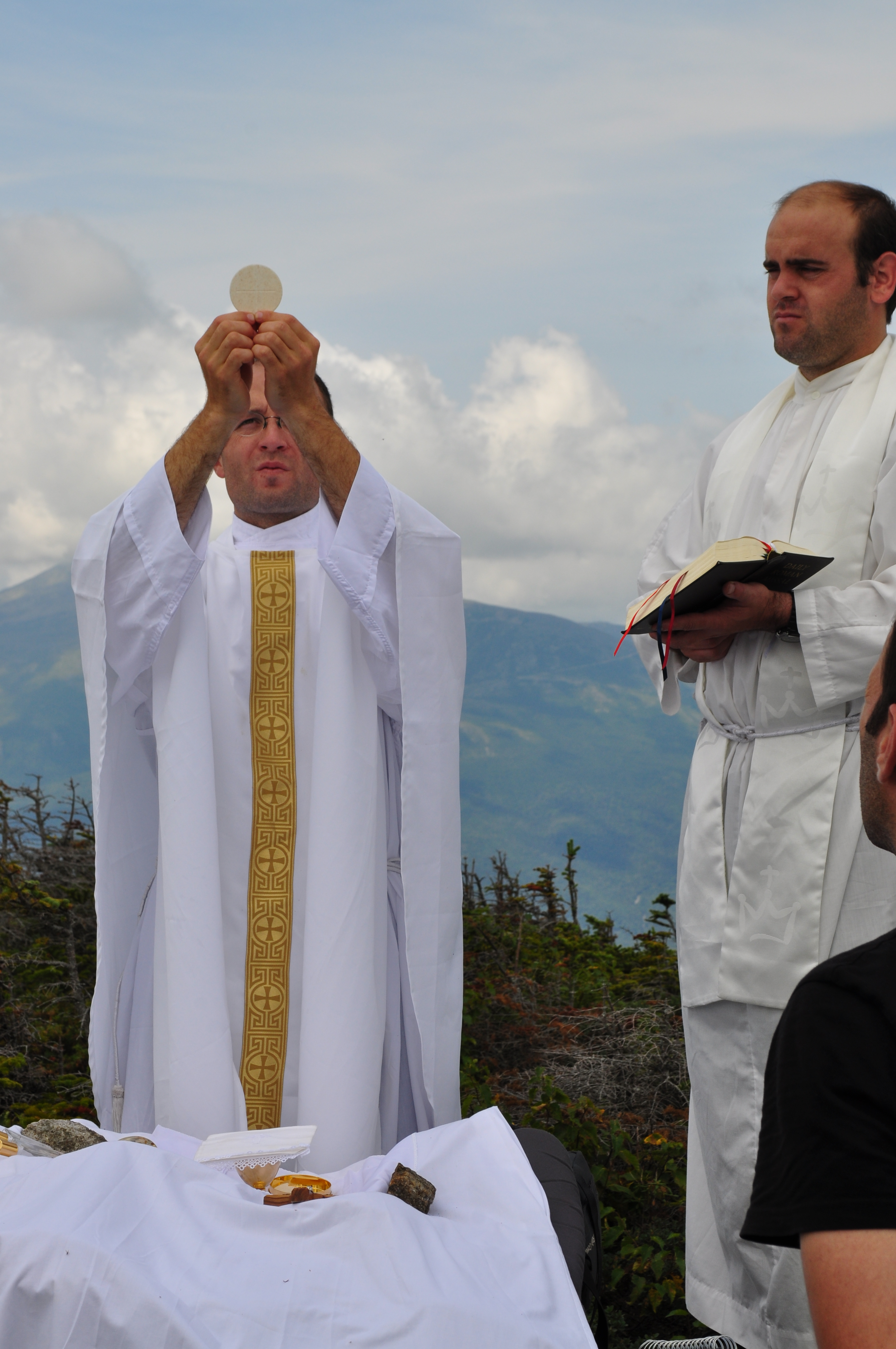 Priests of the Institute of the Incarnate Word celebrate Mass on a mountaintop in New Hampshire.